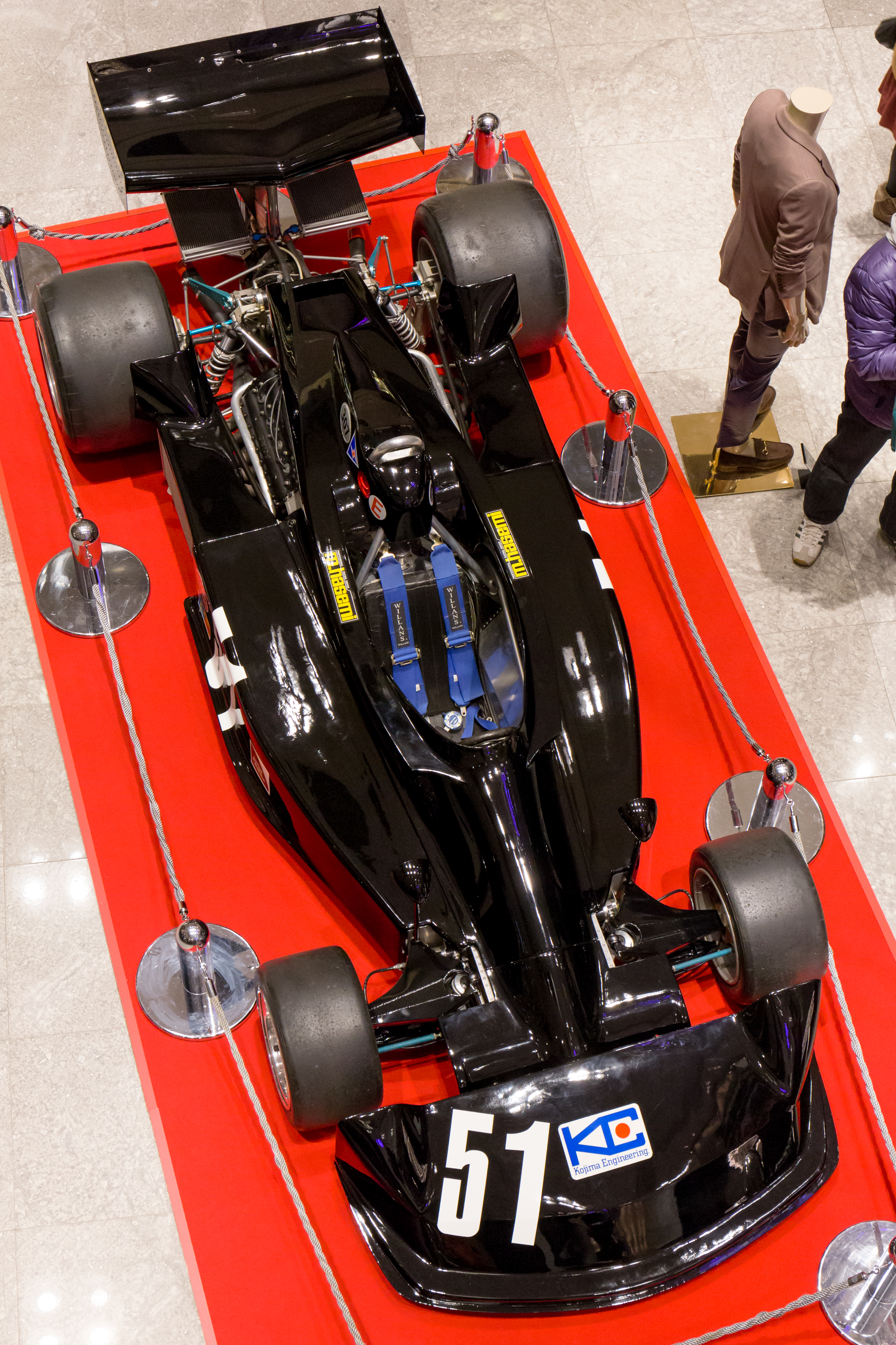 Kojima KE007